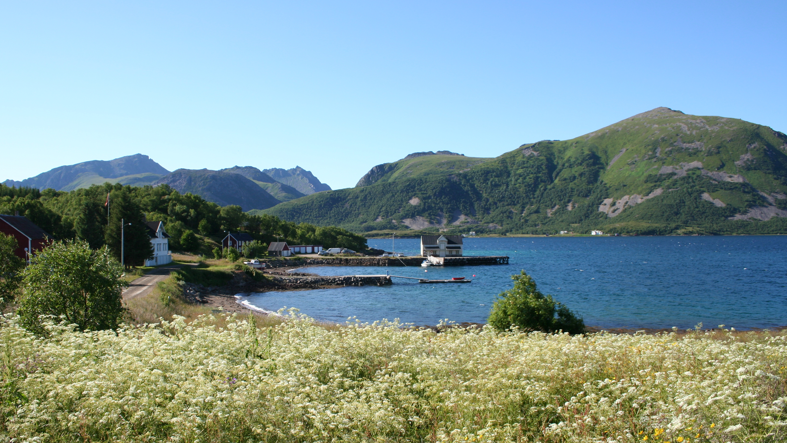 Smines in Øksnes, Norway. Skogsøya island in the background.